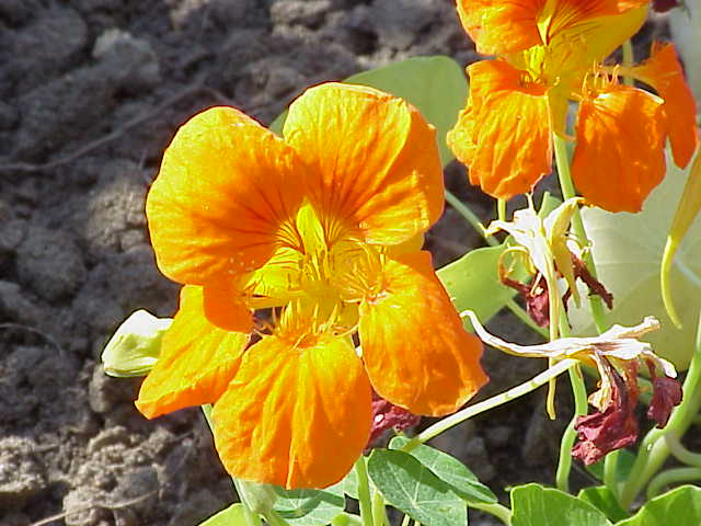 Species: Tropaeolum majus Family: Tropaeolaceae Image No. 2